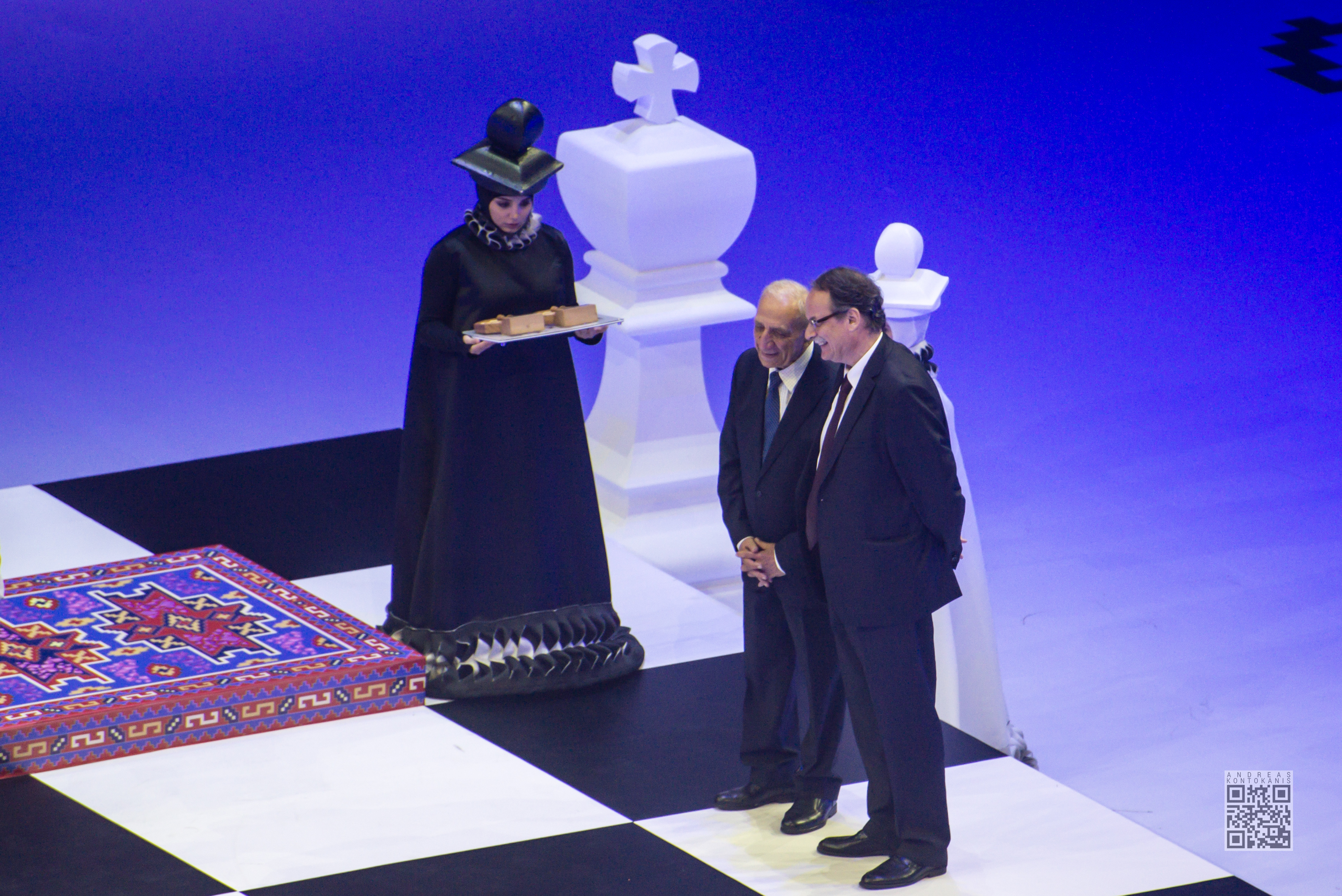 Chief Arbiter Faik Hasanov & Tournament Director Panayotis Nikolopoulos